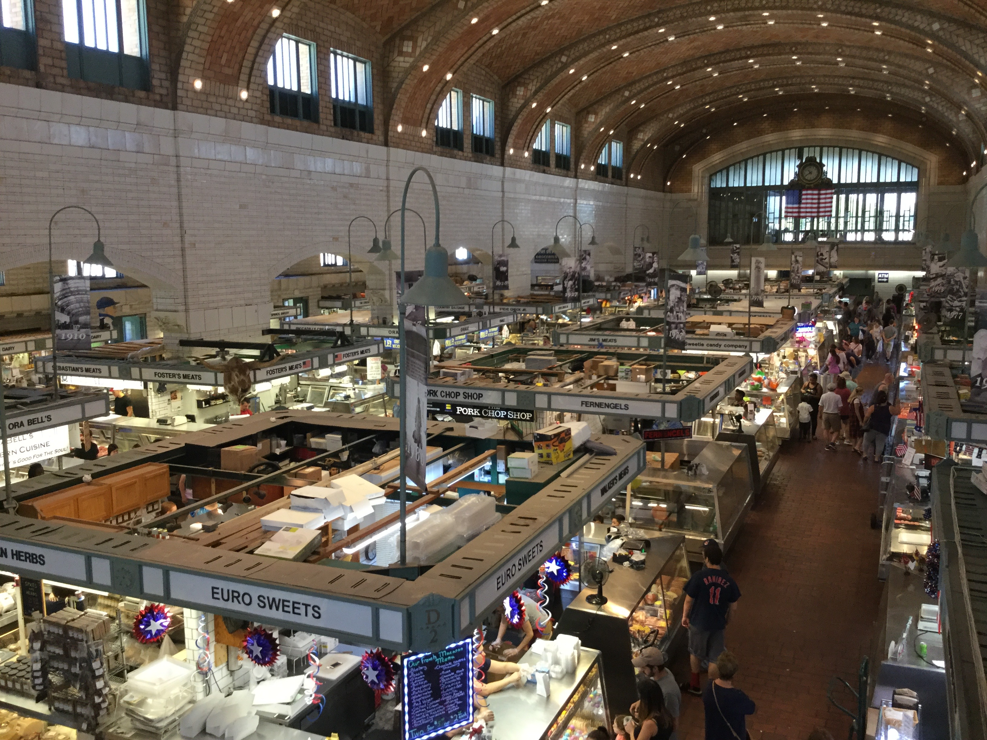 July 8, 2018